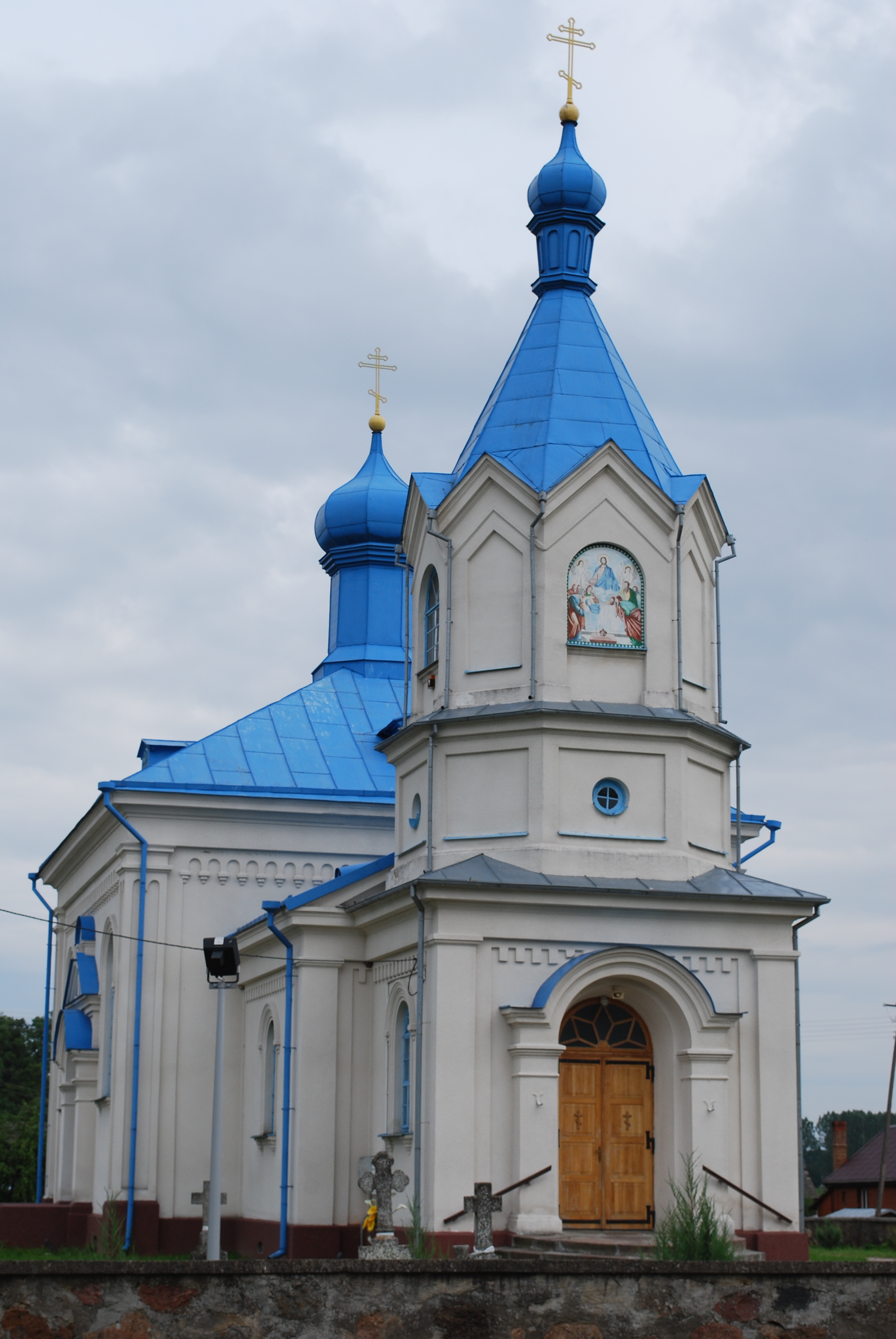 This photo from Podlaskie Voievodeship was taken during Polish Wikiexpedition 2009 set up by Wikimedia Polska Association. The making of this document was supported by Wikimedia Polska. Cerkiew w Dubinach.